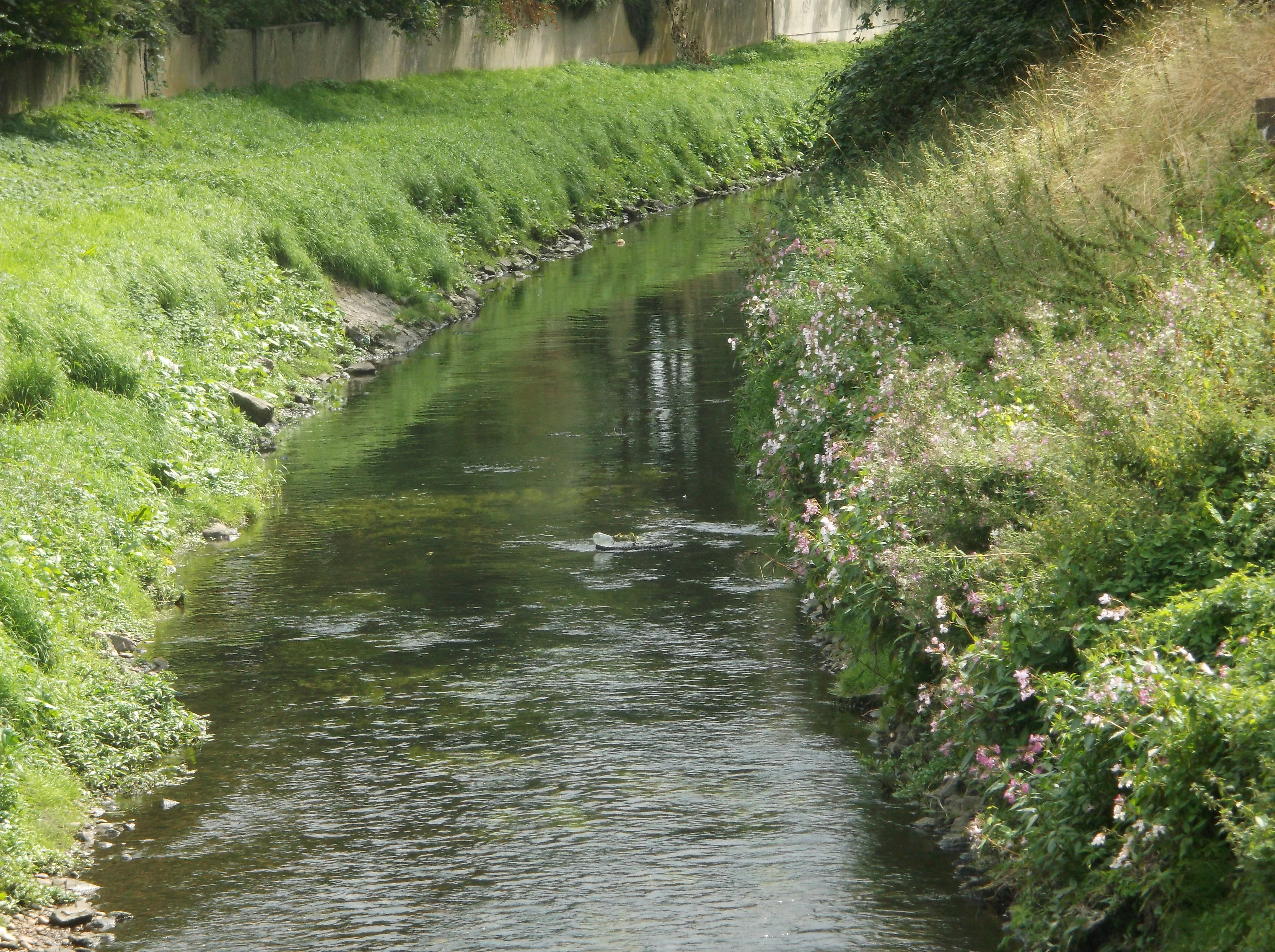 The River Leen as it flows through the Lenton area of Nottingham, past the Queen's Medical Centre